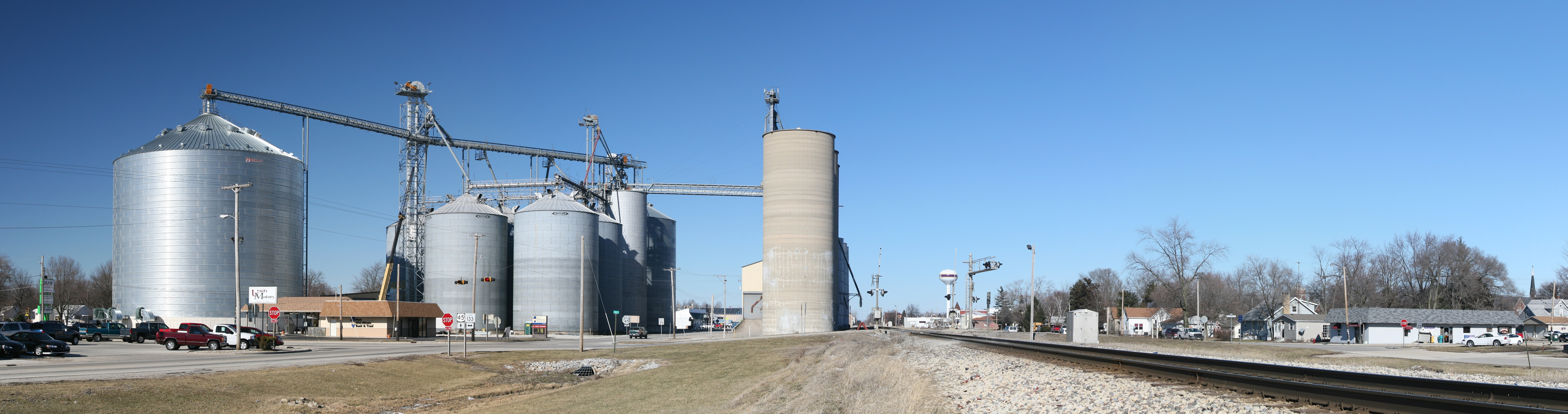 Arcola, Illinois, USA This image was created with Hugin.